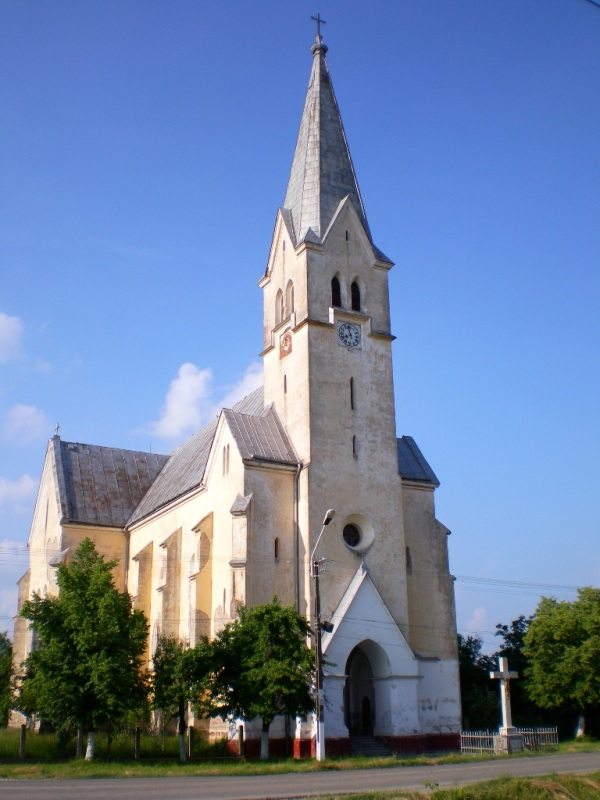 Roman Catholic church in Bacova, Timiş County, Romania